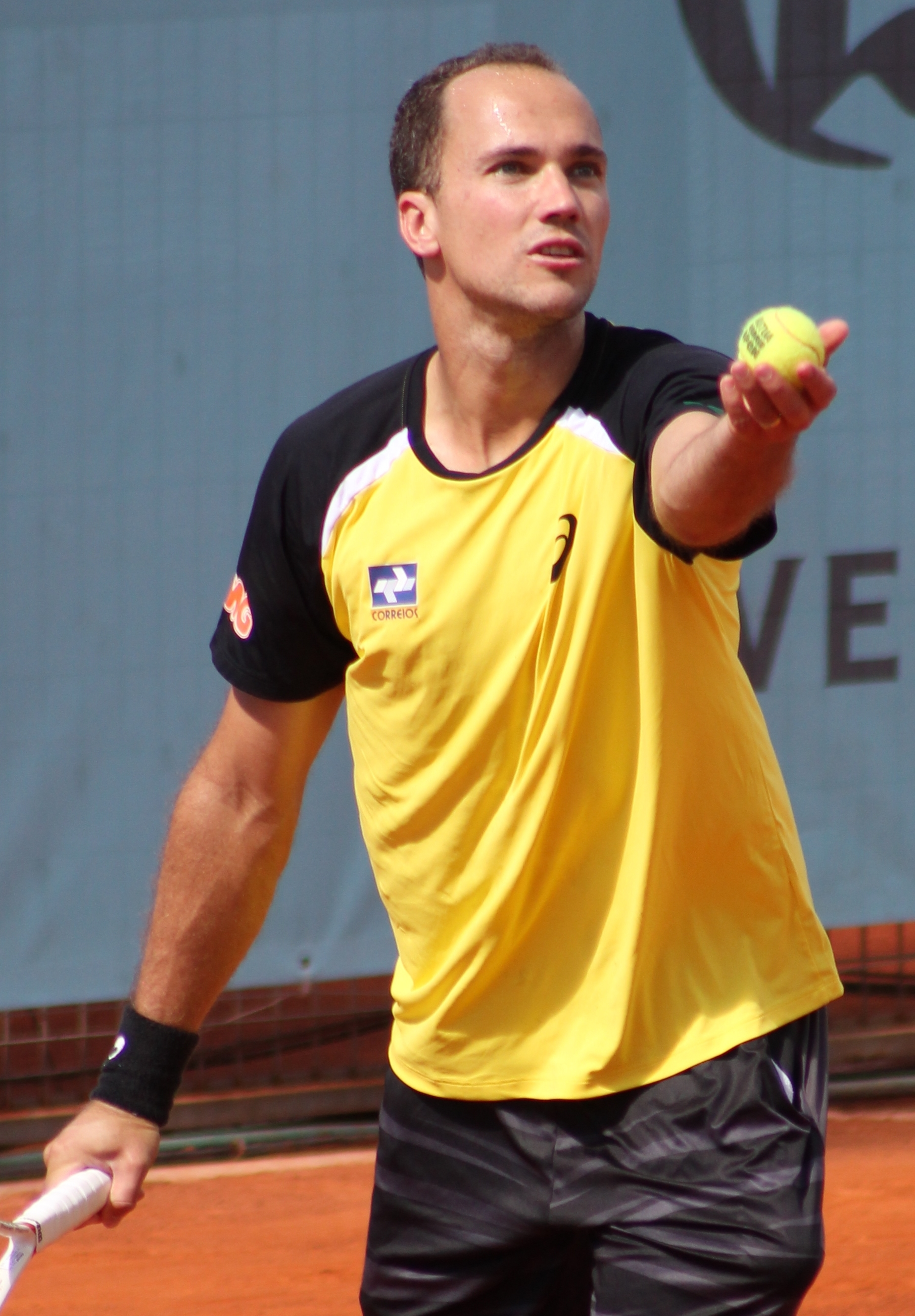 Soares MA14 (8)